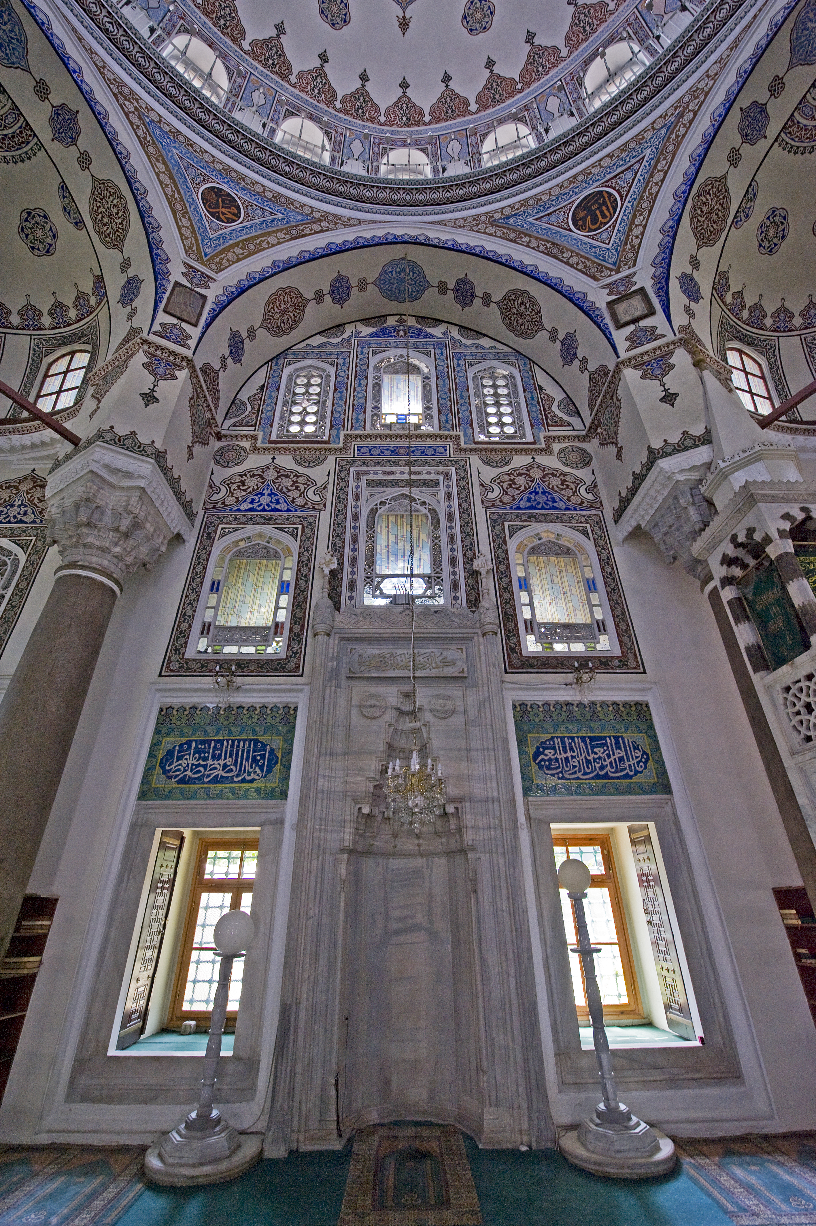 [The mosque] It was commissioned by Kara Ahmet Paşa (‘Black Ahmet’), a Grand Vizir (and brother-in-law) of Süleyman the Magnificent. He was married to Fatma Sultan, a daughter of Süleyman’s father Selim I. The building works started in 1555 (shortly before Ahmet Paşa died), and finished three years later under supervision of Rüstem Paşa, another Grand Vizier (and a son-in-law) of sultan Süleyman. The courtyard north of the mosque has a large şadırvan (fountain for ritual ablutions) in its center; it is surrounded by a medrese, with cells for the students and a dershane (main classroom). The türbe (mausoleum) of Kara Ahmet Paşa (built 1558) stands next to the mosque. Info from J.M.Criel, Antwerpen. Sources: ‘Türkiye Tarihi Yerler Kılavuzu’ – M.Orhan Bayrak, Inkılâp Kitabevi, Istanbul, 1994